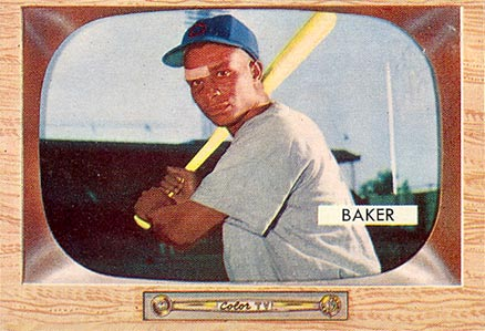 1955 Bowman baseball card of Gene Baker of the Chicago Cubs #7. PD-not-renewed.